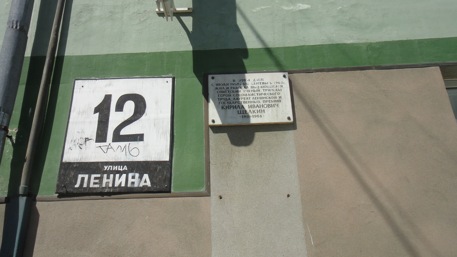 Мемориальная доска Щелкину